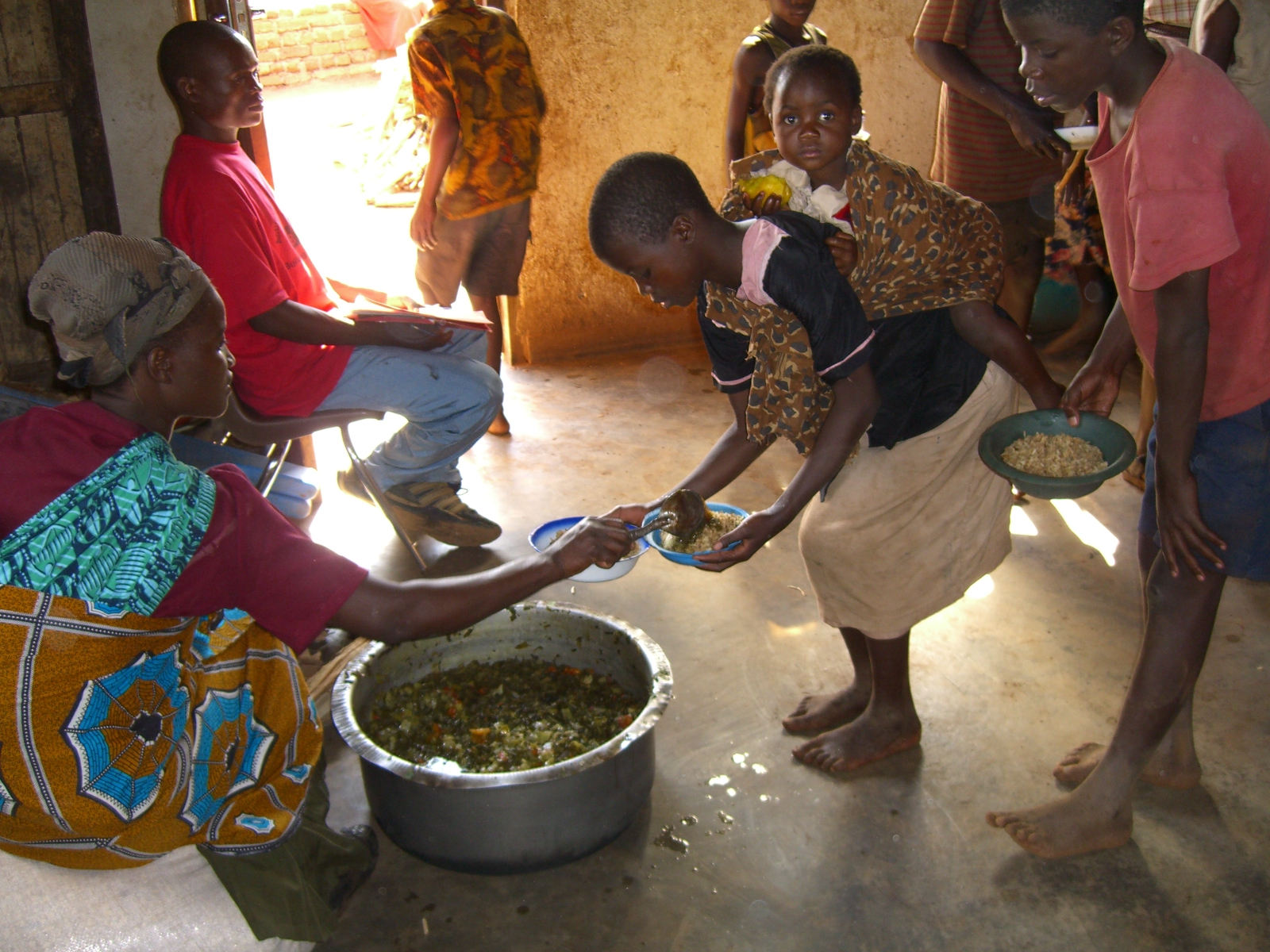 Children of the Nations Feeding Program near Lilongwe, Malawi